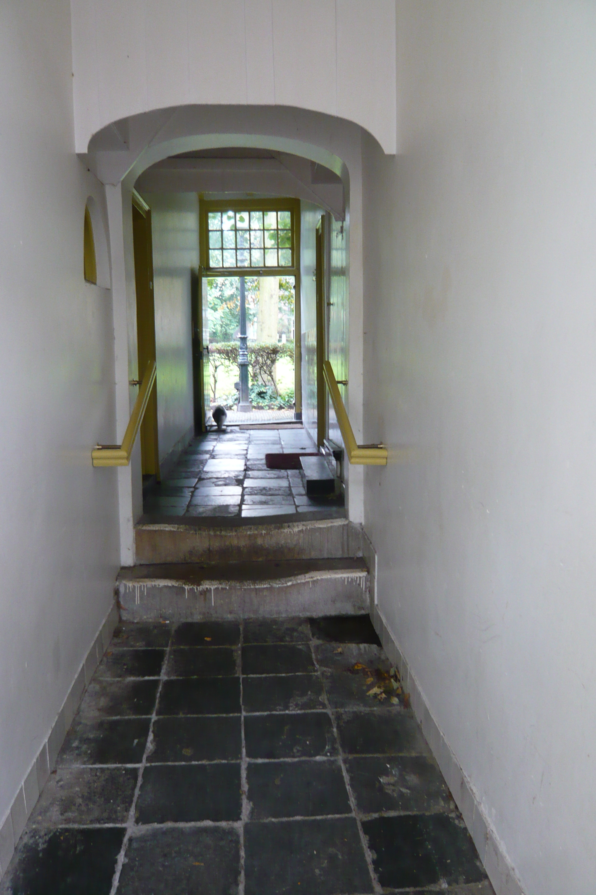 Hallway of rear entrance Proveniershof, Grote Houtstraat, Haarlem.